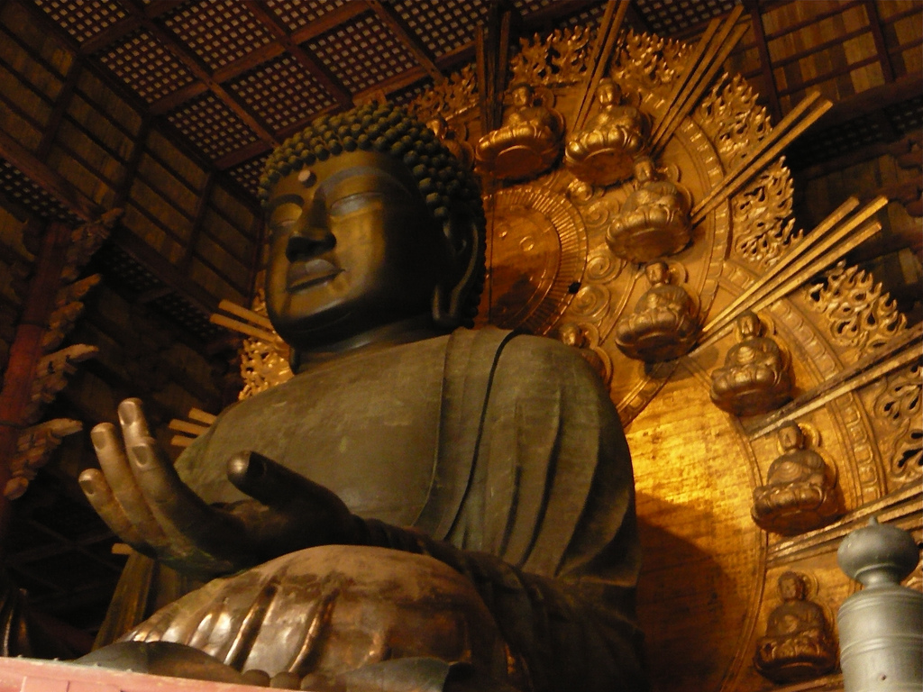 Daibutsu of Todaiji